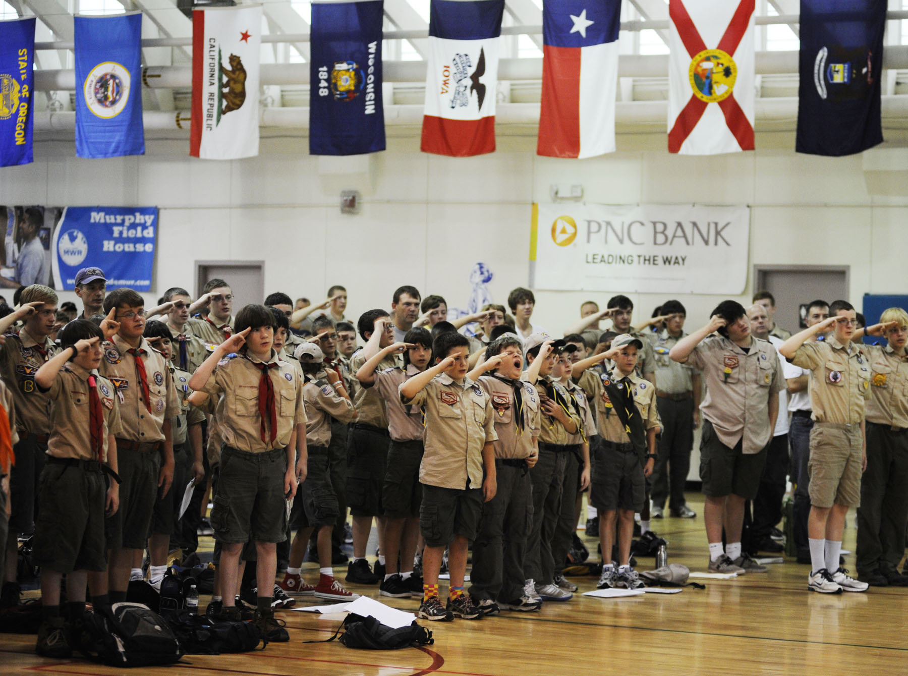 Baltimore area Boy Scouts gather Saturday at Murphy Field House during the daylong S.T.E.M. Merit Badge Day. The Scouts, who chose one badge to focus on for the day, attended classes at the Defense Information School, Burba Lake and Picerne neighborhood centers that focused on chemistry, composite materials, computers, electricity, electronics, inventing, robotics, engineering, space exploration, energy and surveying. (Photo by Noah Scialom)